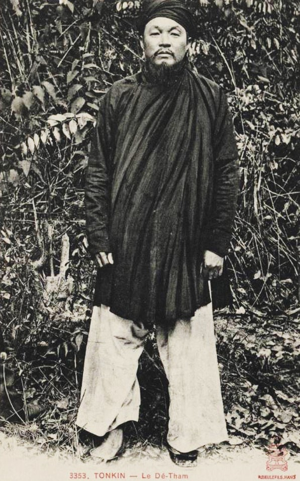 Portrait of Hoang Hoa Tham, leader of rebels against the French